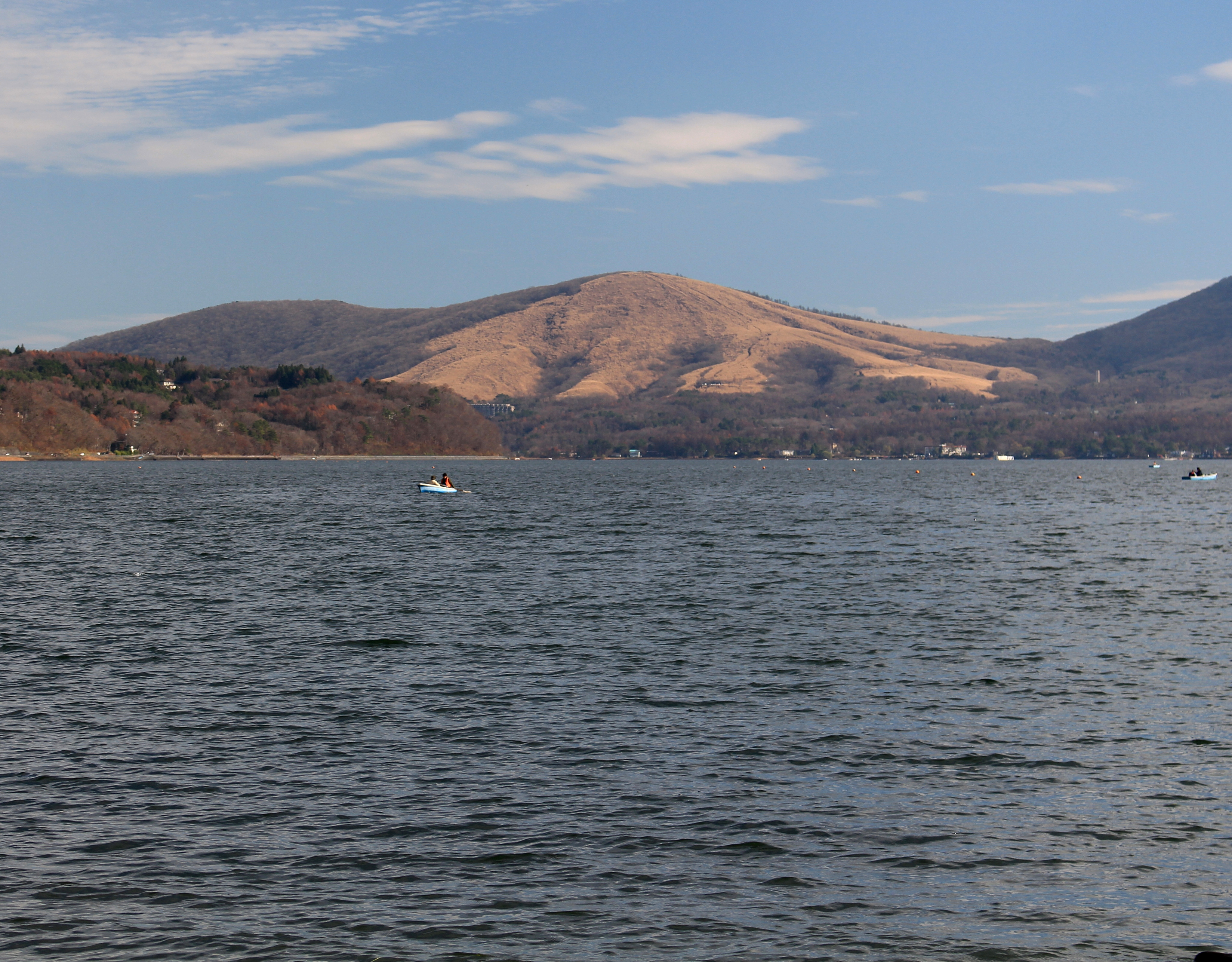 Mount Teppoginoatama (Mount Myojin) seen from Lake Yamanaka, in Yamanashi prefecture, Japan.